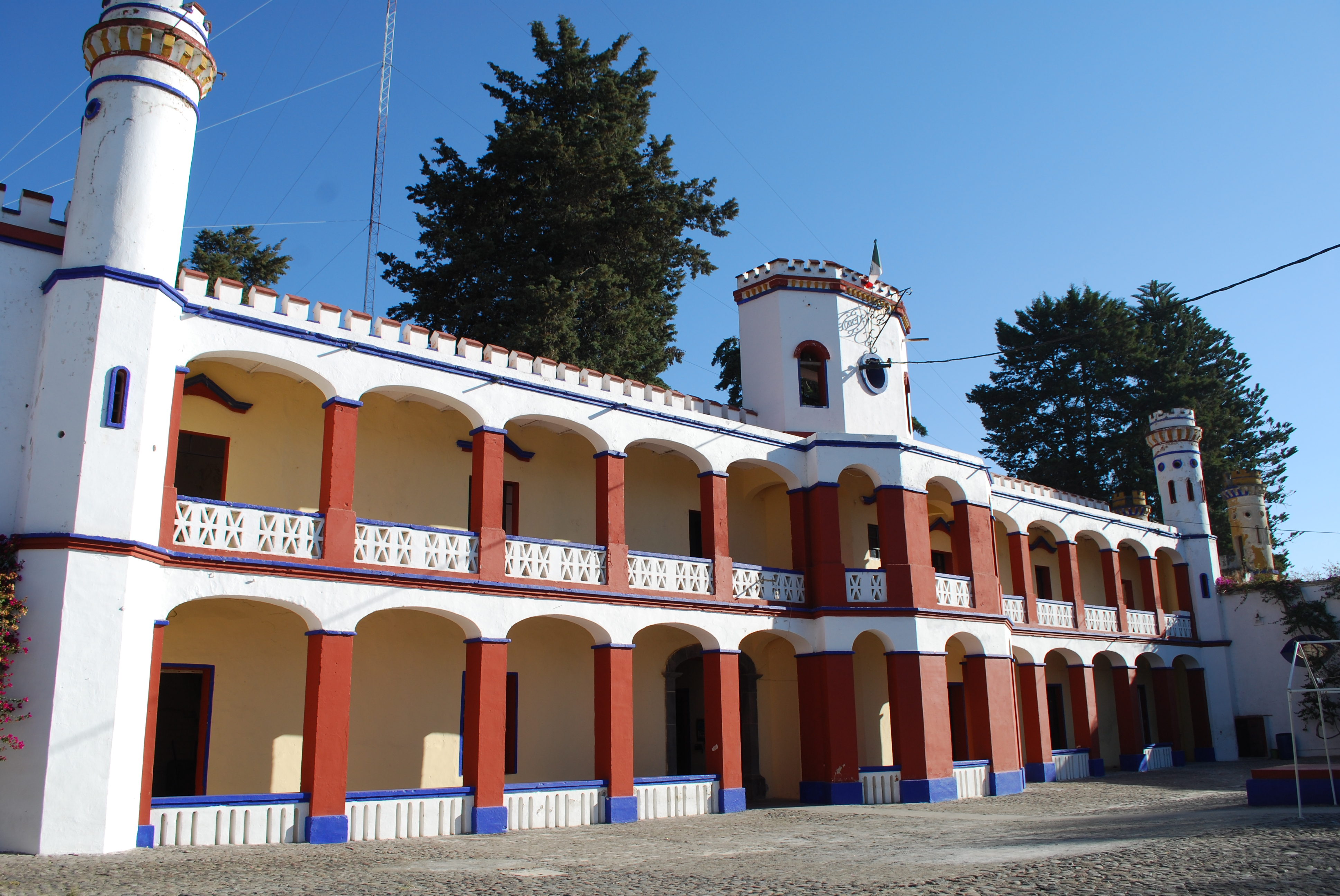 side of the main house of the Chautla Hacienda, San Salvador el Verde, Puebla, Mexico